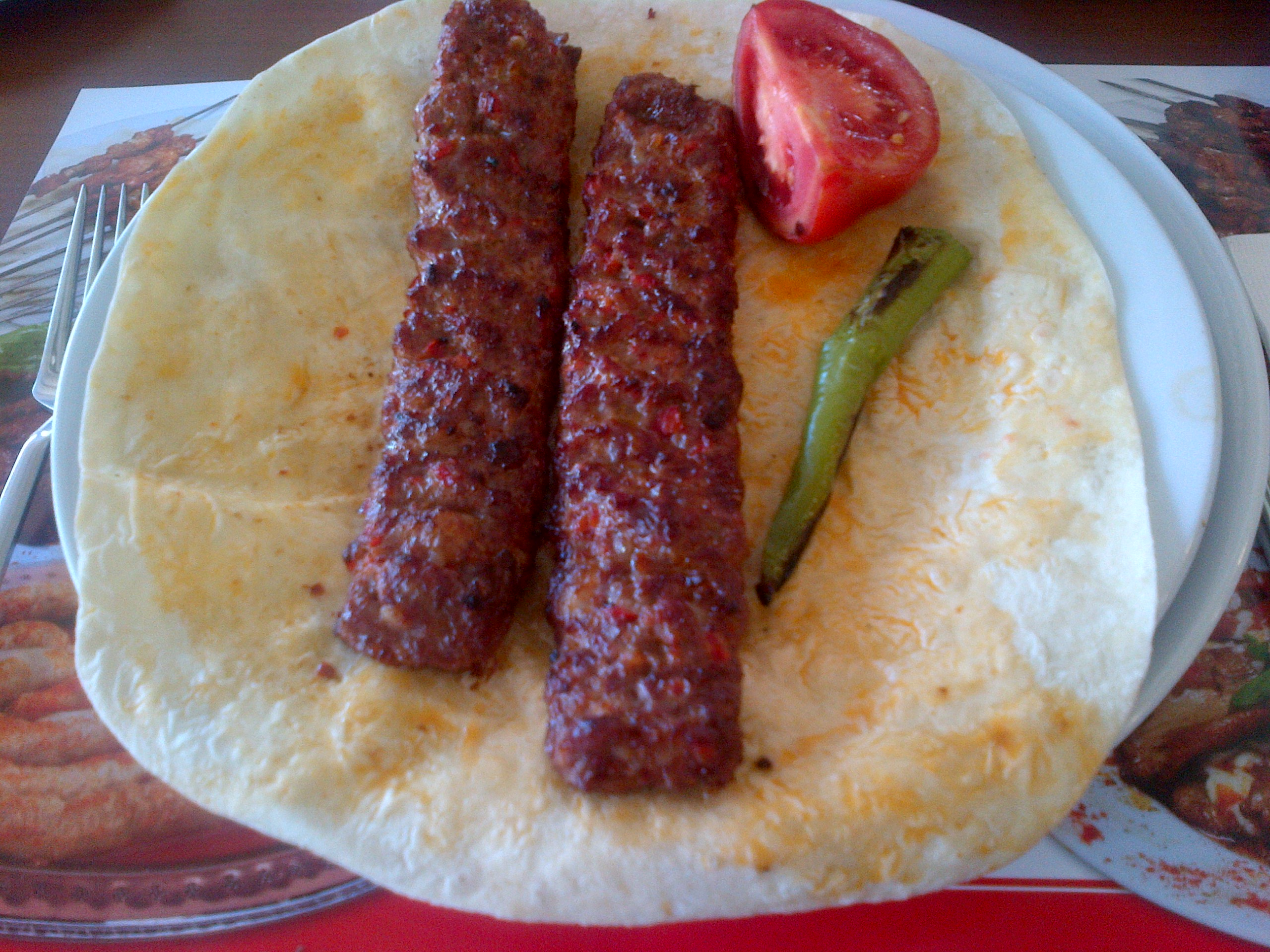 Adana kebab in Ankara.